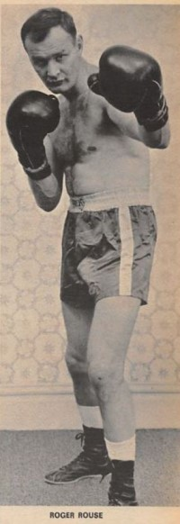 Rouse with boxing gloves